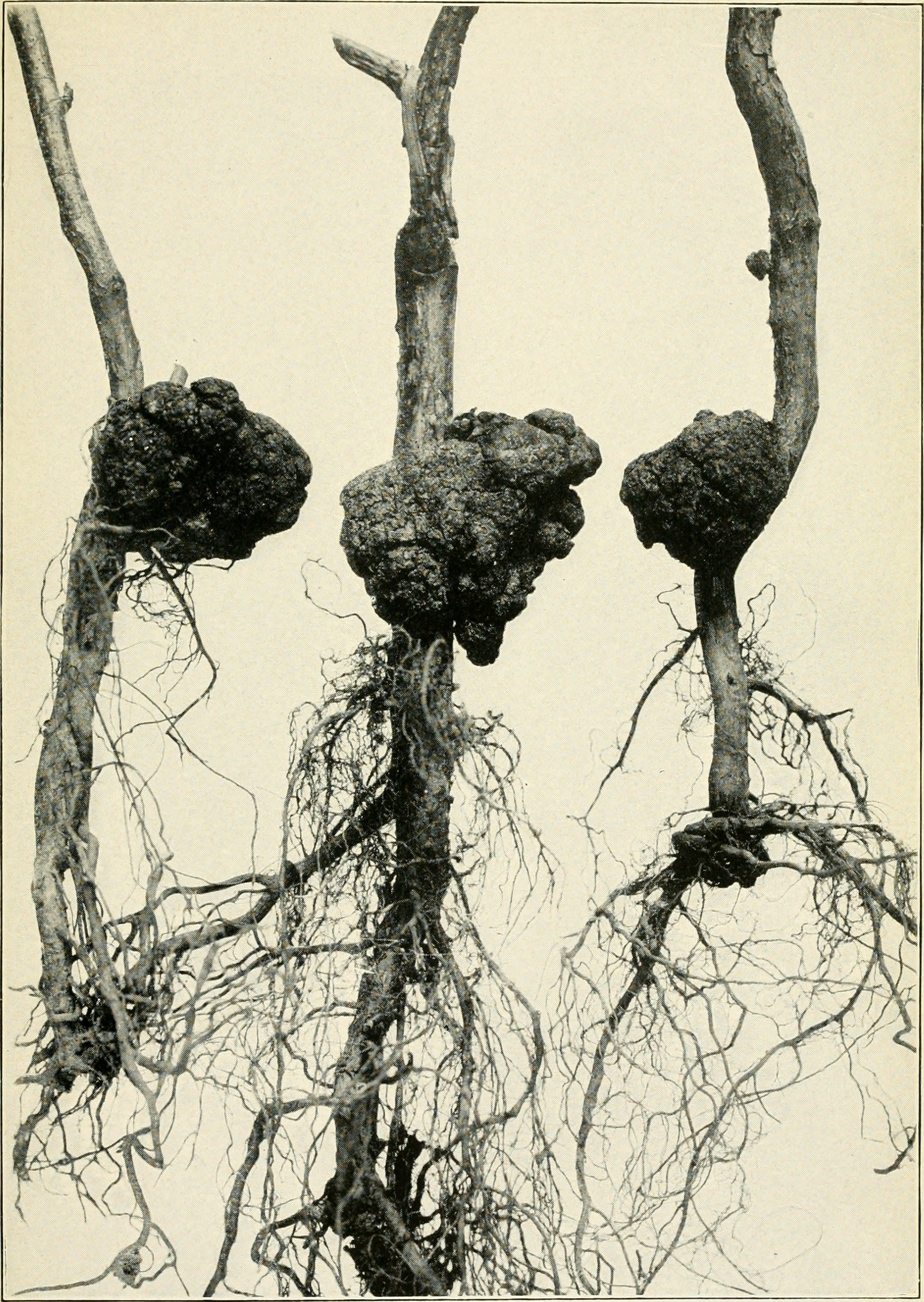 Title: Annual report of the State Entomologist of Minnesota to the Governor for the year .. Identifier: annualreportofst151914minn Year: 1903 (1900s) Authors: Minnesota. State Entomologist; University of Minnesota. Agricultural Experiment Station Subjects: Entomologist; Entomology; Insects Publisher: St. Anthony Park, Minn. : Agricultural Experiment Station Text Appearing Before Image: ' Text Appearing After Image: Three varieties of Raspberries affected with Crown Gall. Washburn